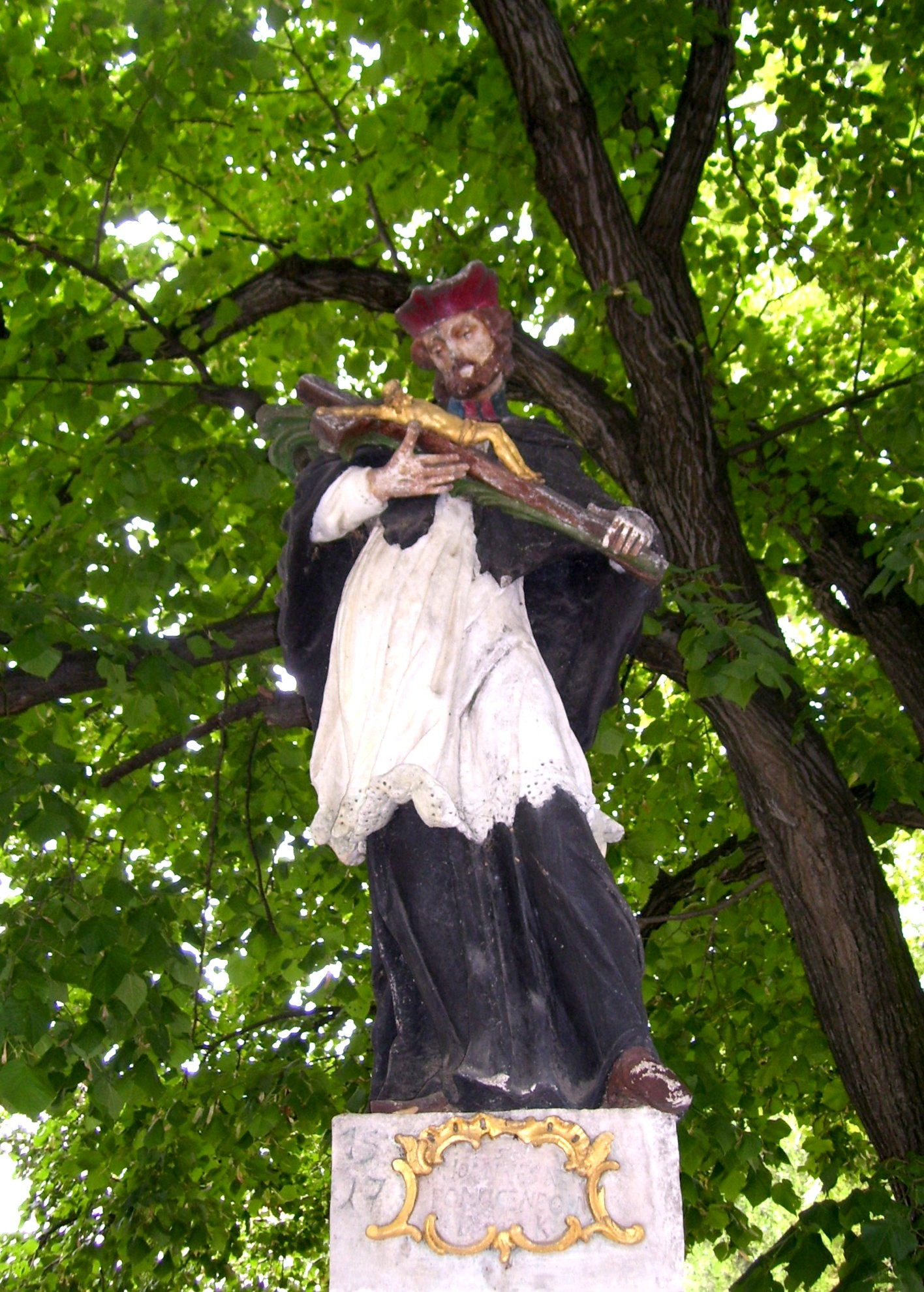 John of Nepomuk in Dunabogdány